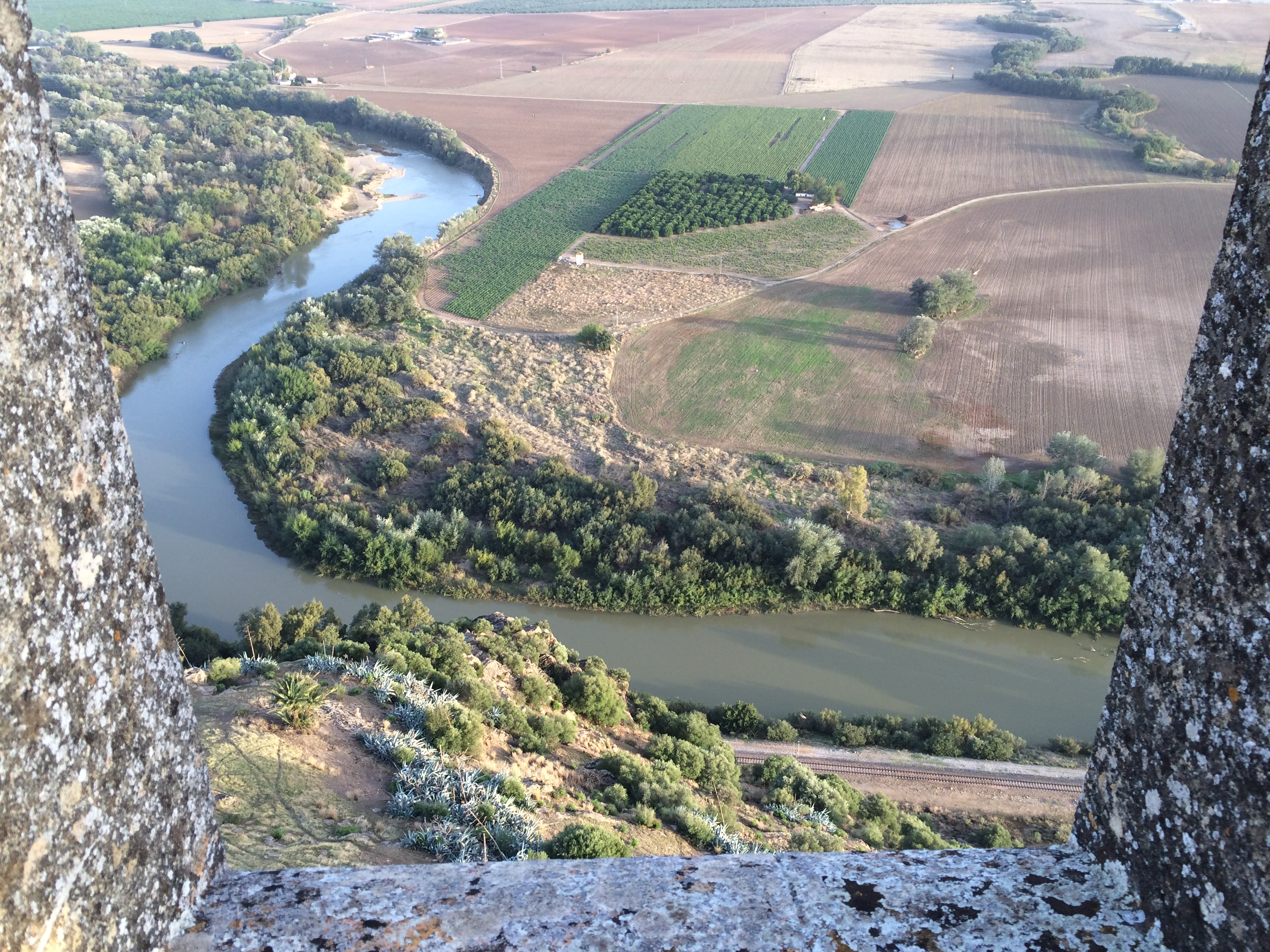 View of Guadalquivir river at Almodóvar del Rio, Córdoba, Spain, from the castle.